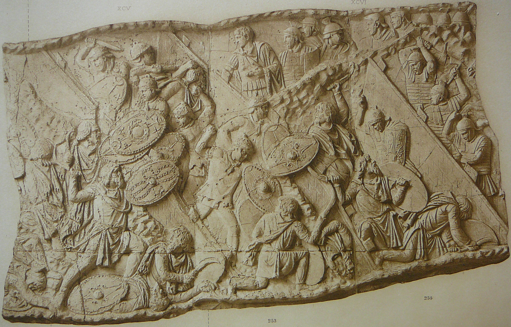 The Dacians assault Roman posts (scene XCV); the Romans fight back (scene XCVI)